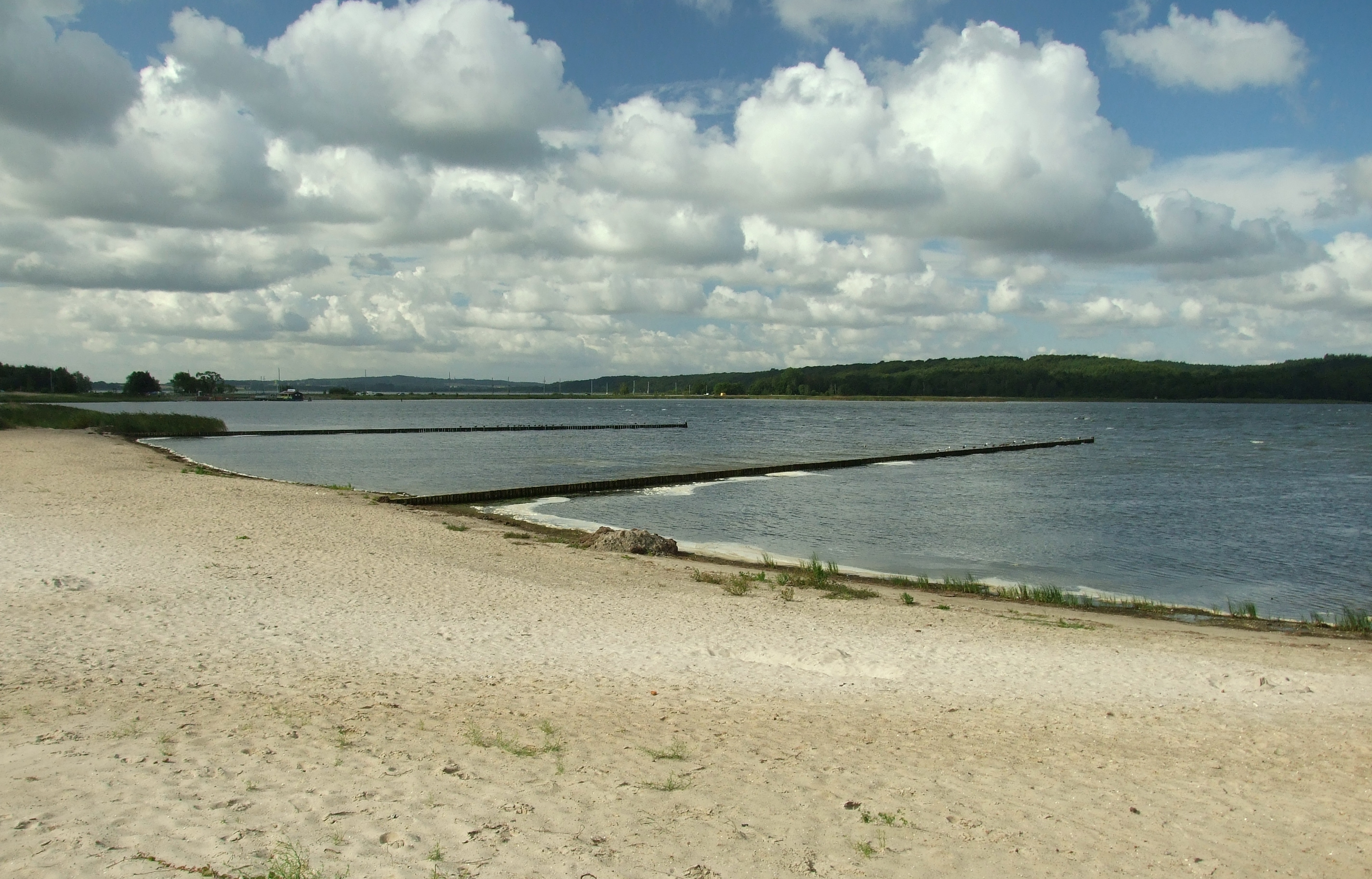 Grosser Jasmunder Bodden Bay near the town of Lietzow, Rügen Island, Germany